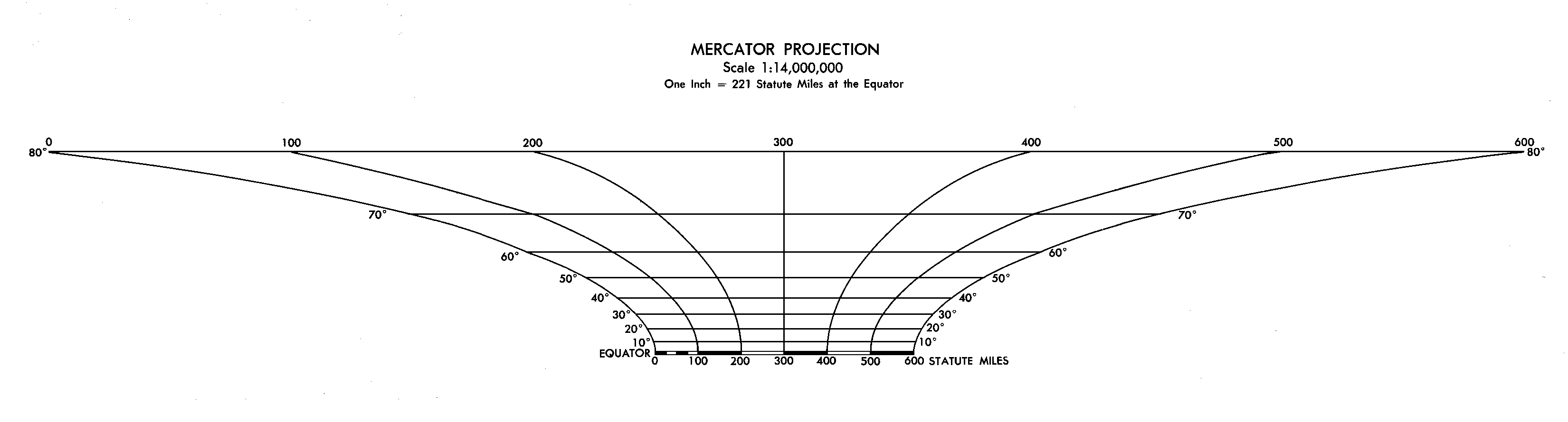 The graphical scale from a DMA (now NGA) world map using the Mercator projection. The original map, in six pieces, measures 116 x 86 inches (2.9 x 2.2m). Simplified and reduced size on second try.